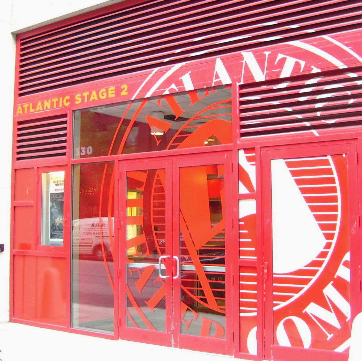 The Atlantic Theatre Company's Stage 2, located at 330 West 16th Street between 8th and 9th Avenues in the Chelsea neighborhood of New York City